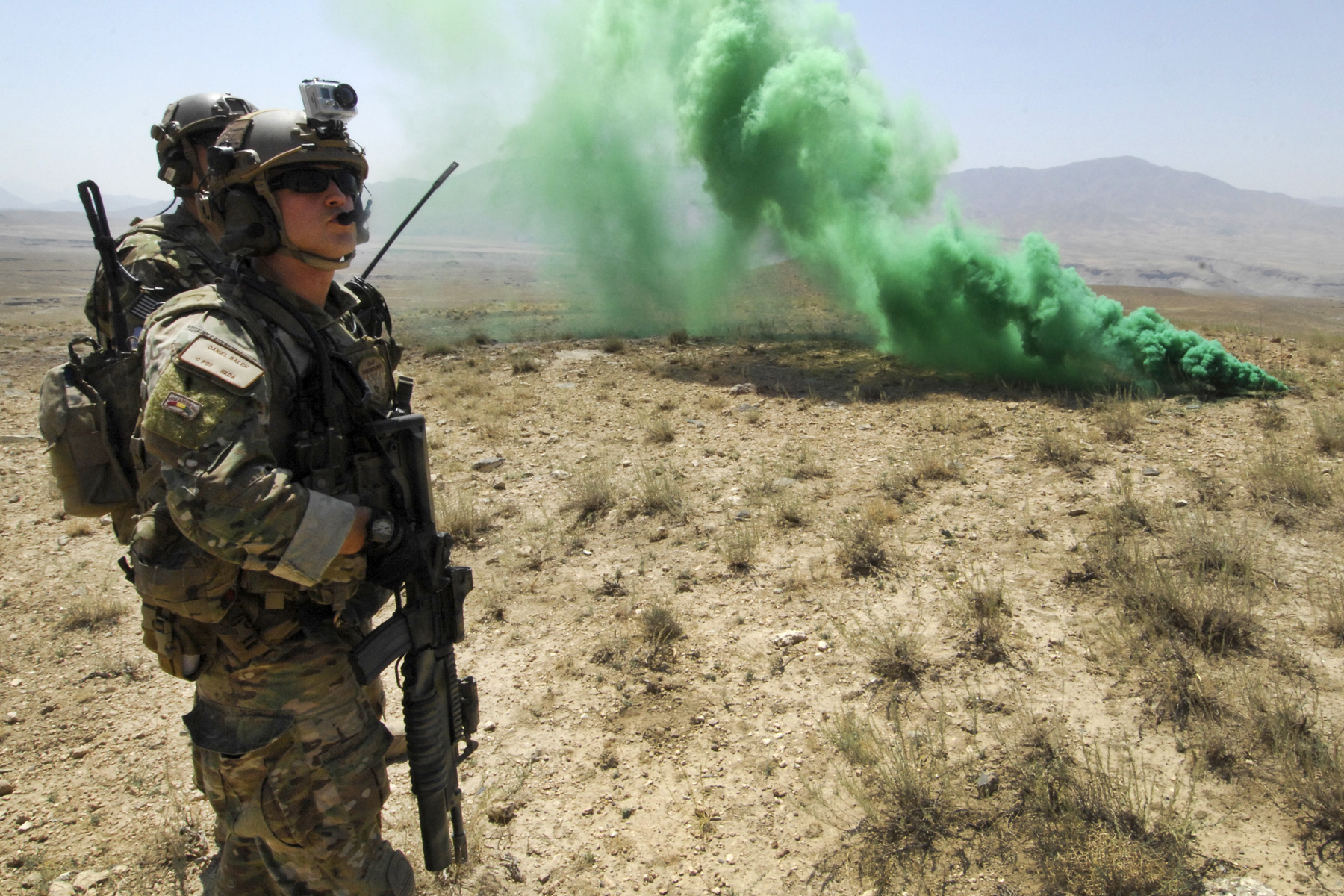 1st Lt Daniel Balch, a combat rescue officer assigned to the 83rd Expeditionary Rescue Squadron (front left), waits for a U.S. Air Force HH-60 Pave Hawk during a training mission at Bagram Airfield, Afghanistan, Aug. 18, 2012. During the nearly two hour training mission, Guastella participated with pararescue jumpers and CROs of the 83 ERQS, also known as the “Pedros,” to see firsthand how they contribute to the war on terrorism here in Afghanistan. Guastella expressed his appreciation for their efforts and for their part in continuing to making the mission a success. (U.S. Air Force photo/SSgt Jeff Nevison)